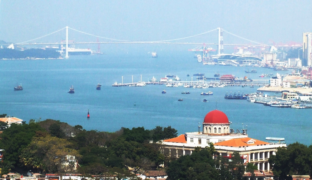 The view of the Xiamen West Harbor (厦门西港), part of Xiamen Bay, from Gulangyu Island. Looking north, with the Haicang District (mainland) on the left and Xiamen Island (Siming and Huli Districts) on the right. The Haicang Bridge, connecting Xiamen Island with the mainland, is in the middle. This version has been rotated, cropped, contrast and exposure adjusted, and a streak across the picture (a power line?) has been photo-shopped out.